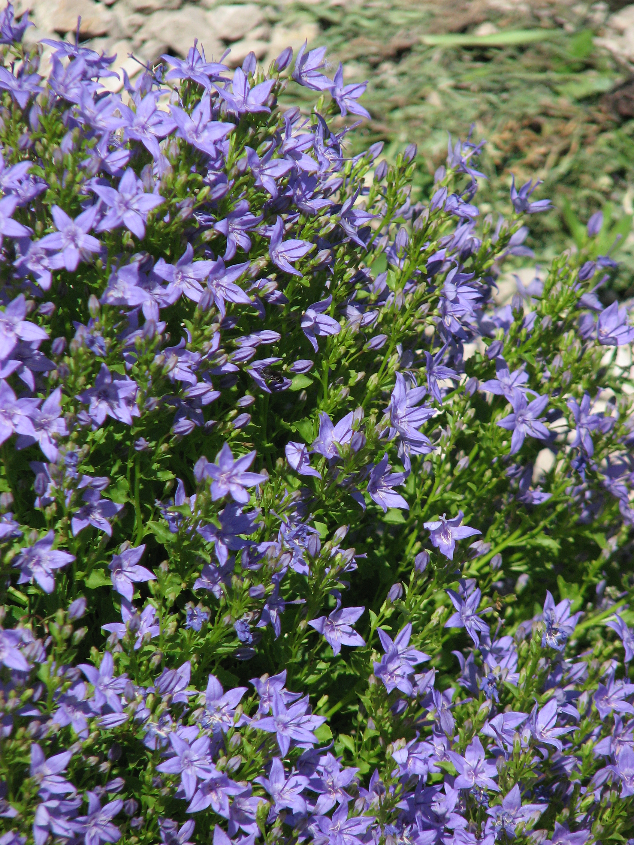 Campanula portenschlagiana. From the collection of the Main Botanical Garden of Academy of Sciences in Moscow (perennials plot).